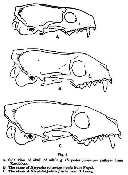 Skulls of Herpestes javanicus, Herpestes edwardsii and Herpestes fuscus